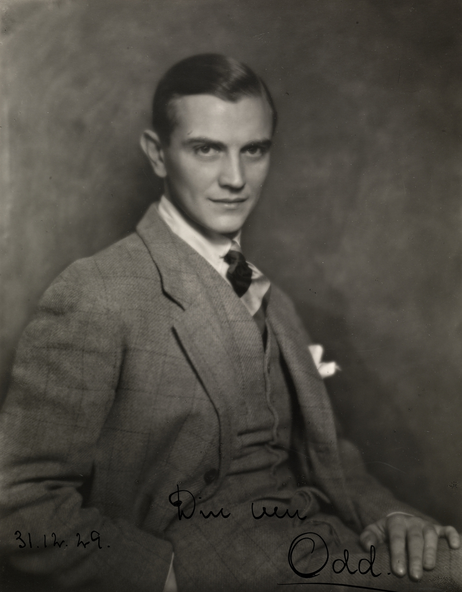 Norwegian actor Odd Frogg (1901–34)